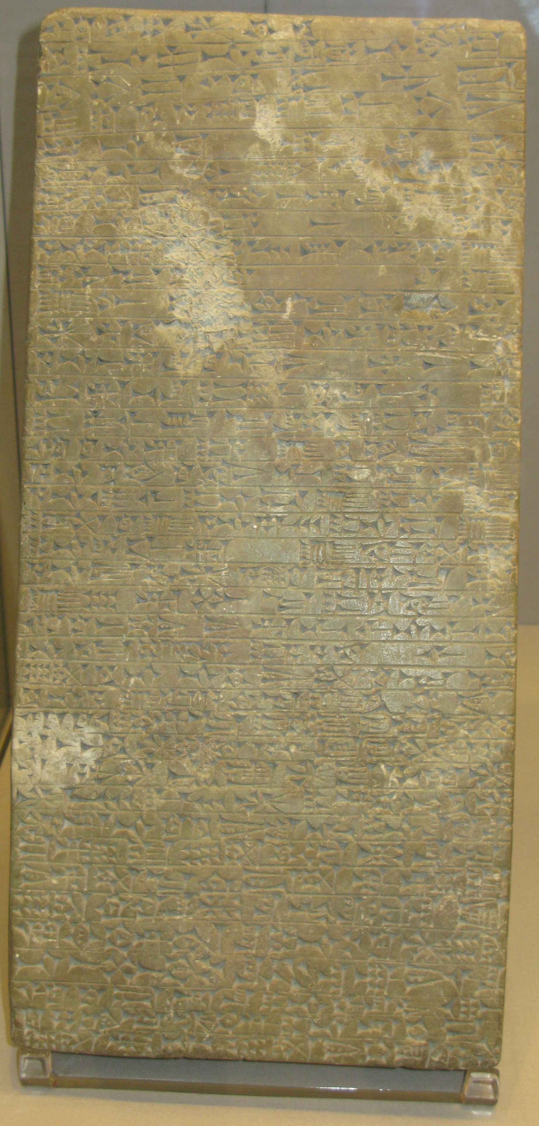 A tablet commemorating the reconstruction of the ashur temple by Adad-Nirari I